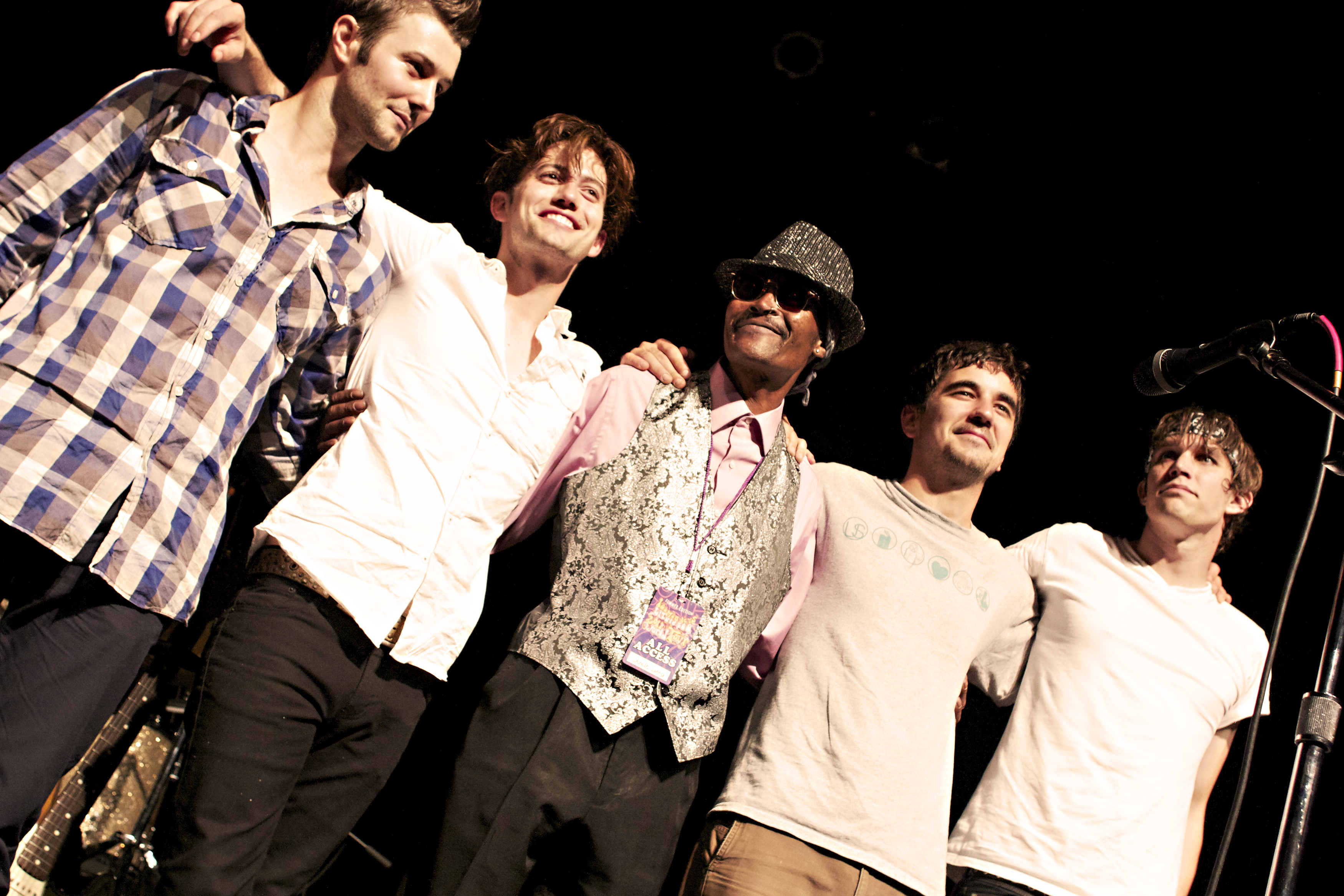 100 Monkeys bow at the Egyptian Room in Indianapolis, IN on their Liquid Zoo tour.